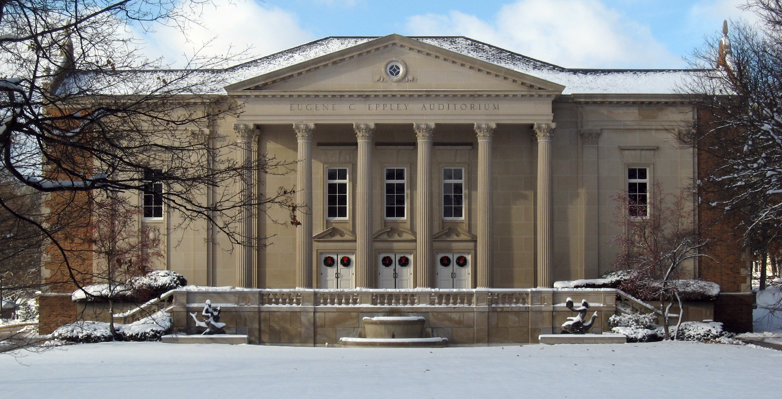 Photo of Eugene C. Eppley Auditorium